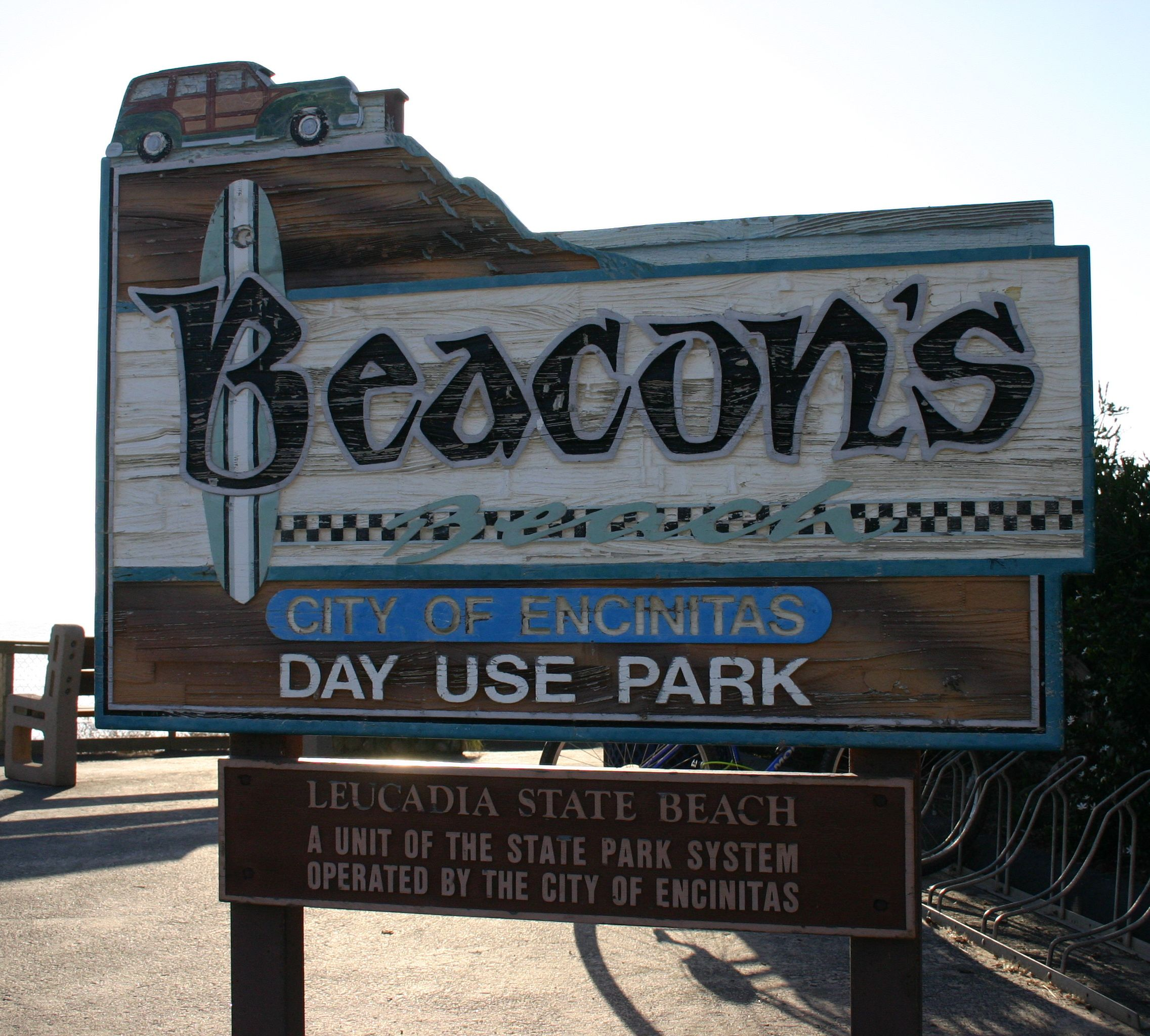 Signboard at entrance to car park at Beacons Beach, Encinitas, CA, also known as Leucadia State Beach